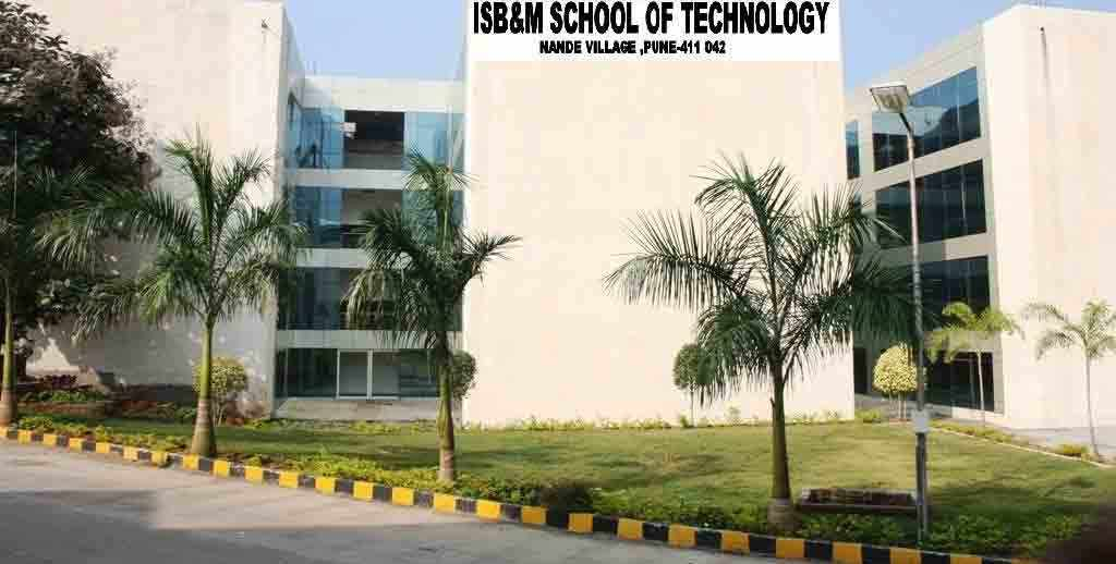 Image of ISB&M SOT Building